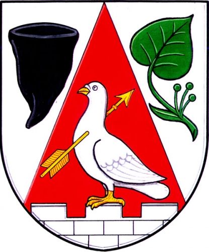 Coats of arms of Pavlinov